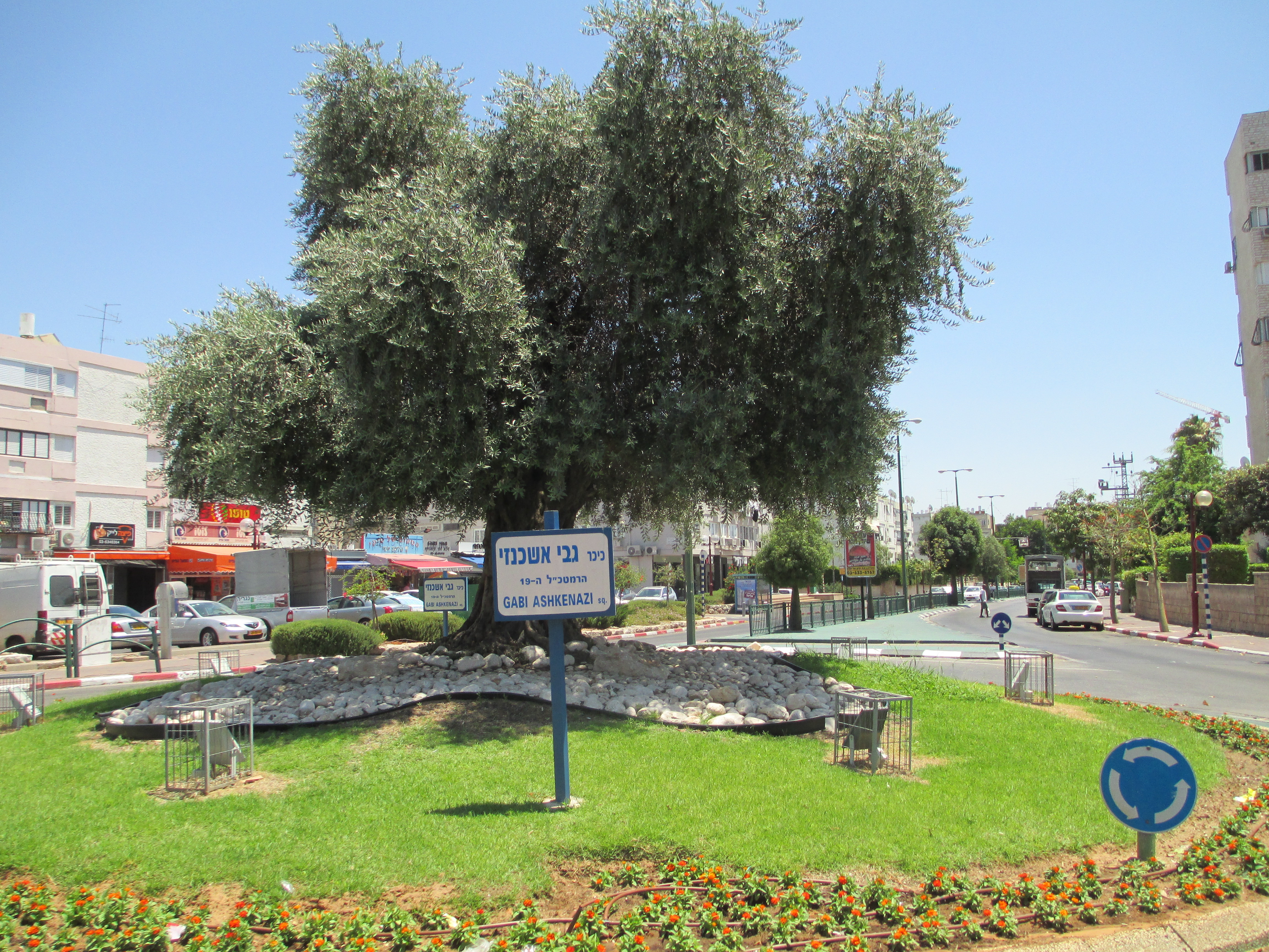 Gabi Ashkenazi Sq., Or Yehuda